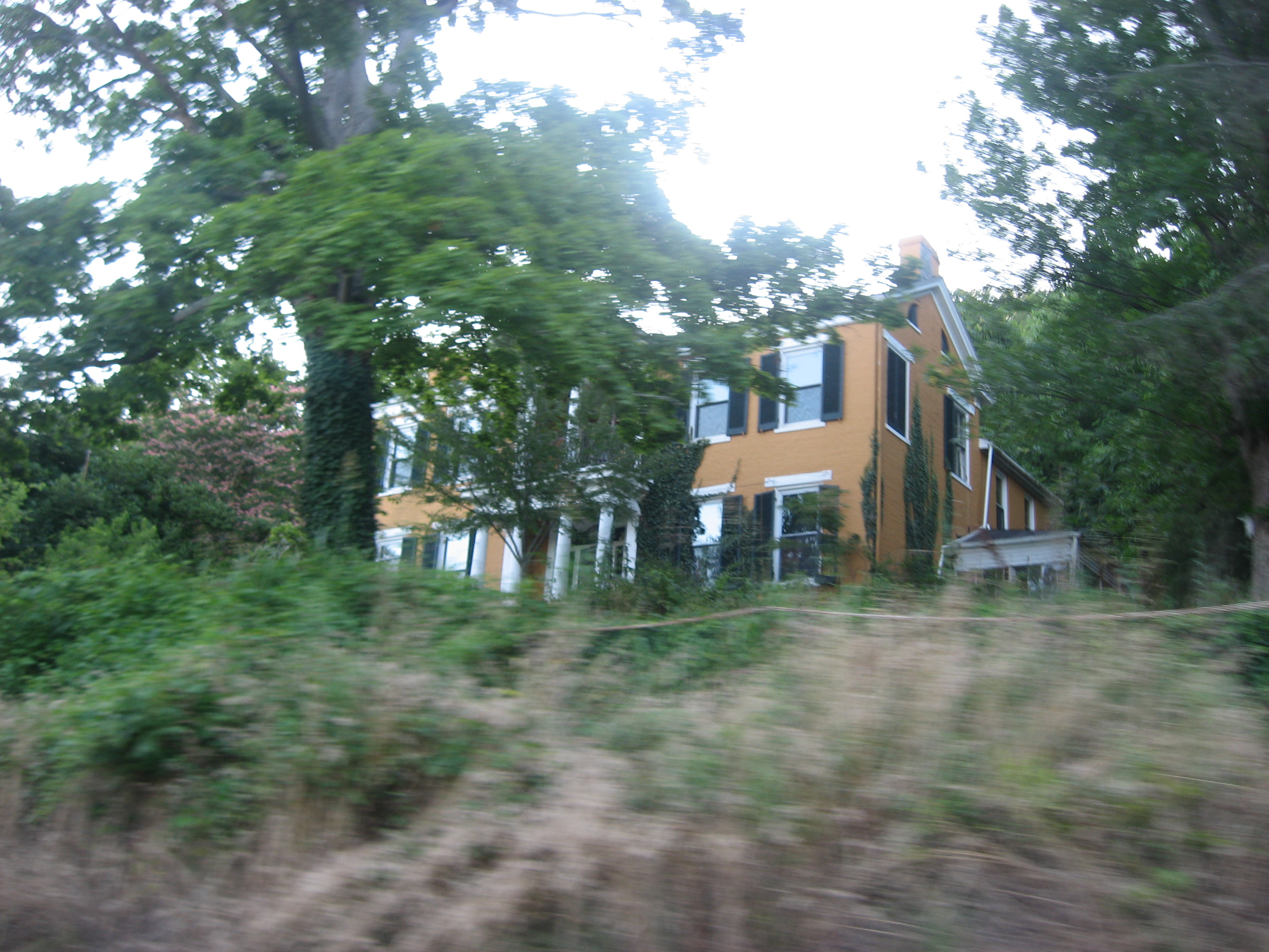 Roadside view of the front of the Thomas T. Wright House, located at 473 State Road 56 southwest of Vevay in Craig Township, Switzerland County, Indiana, United States. Built in 1838, it is listed on the National Register of Historic Places.